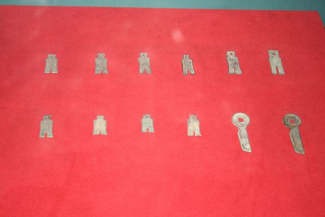 Chinese bronze spade- and knife-shaped coins from the reign of Wang Mang (r. 9–23 AD).